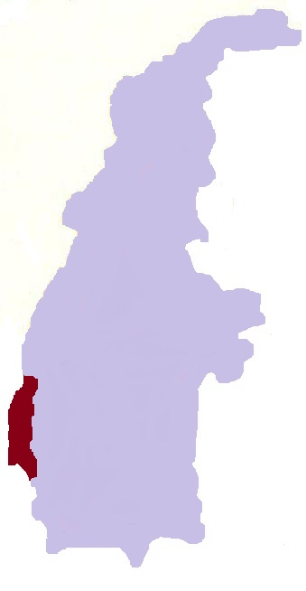 Kale Township roughly highlighted in Sagaing Region, Burma